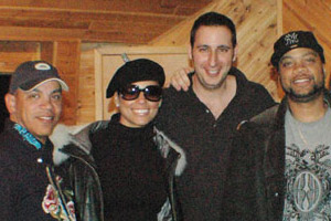 Paul Lapinski Alicia Keys Ricky Minor Crucial Keys